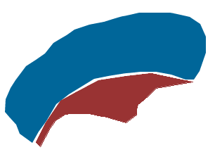 The Location of Actin and Myosin II during the cell migration. Blue is Actin, Myosin II is red. But they form together a transverse band at the bondary. It is supposed, that the myosin II there will contract, and the contraction will pull the cell body forwards. Inspirited by Lodish(2004): Cell Biology 5.edition, page 802